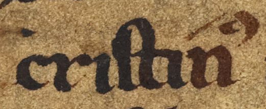 An excerpt from folio 50v of British Library MS Cotton Julius A VII (the Chronicle of Mann). The excerpt reads in Latin "Cristinus". The excerpt concerns Cristinus, Bishop of the Isles.